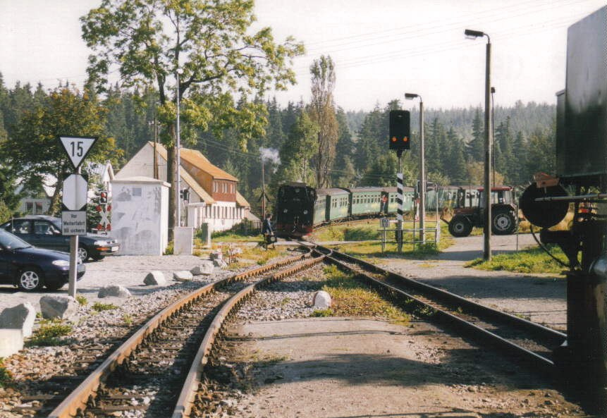 Two passenger trains of the "Fichtelbergbahn" meet at Neudorf (1999).